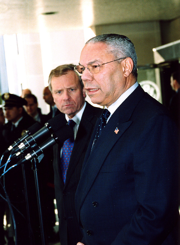 Secretary Powell with NATO Secretary General Jaap de Hoop Scheffer following their Bilateral. State Department photo by Michael Gross. January 29, 2004